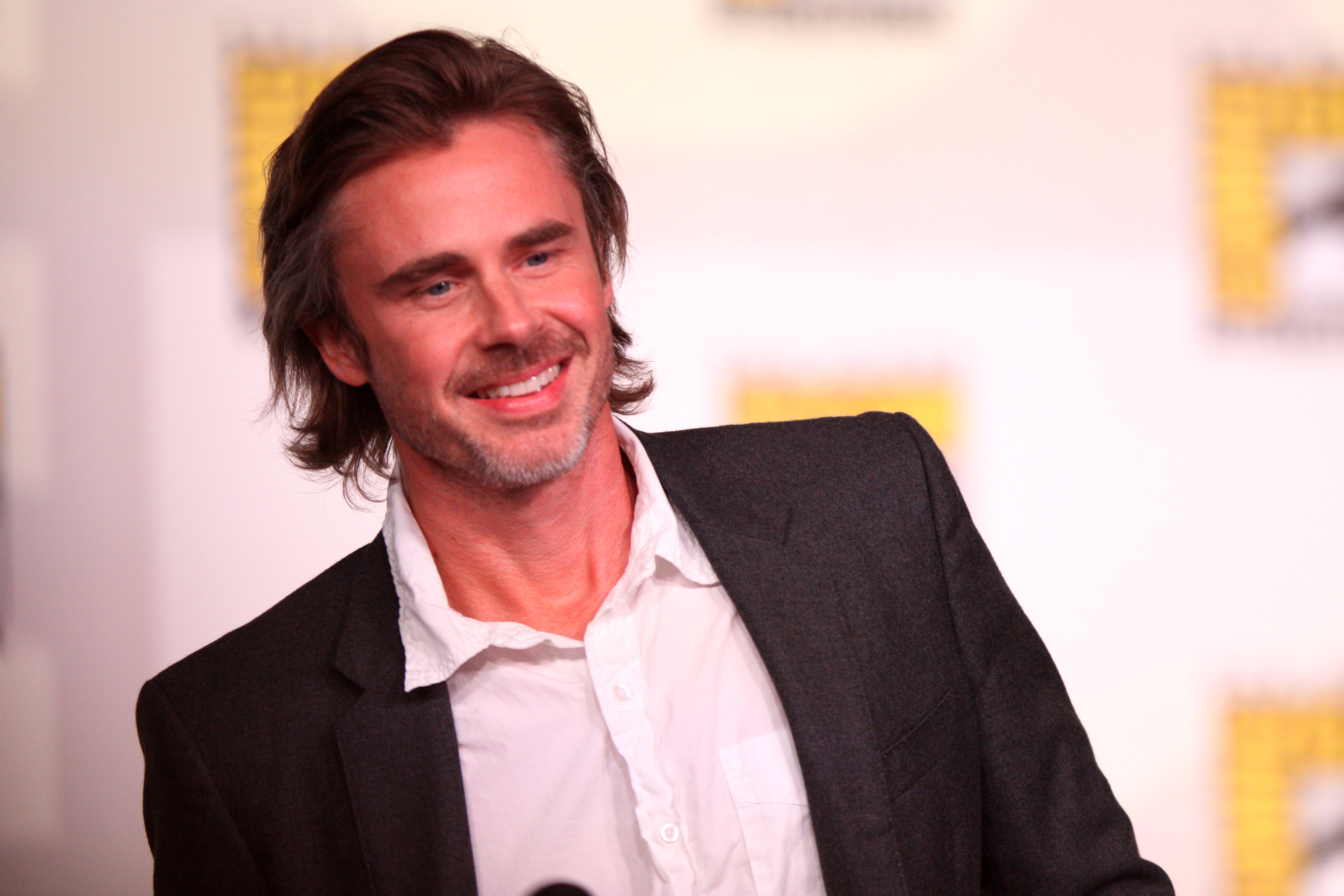 Sam Trammell speaking at the 2012 San Diego Comic-Con International in San Diego, California.